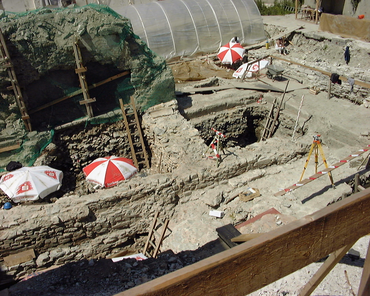 Paderborn, Germany: Archeological excavation.